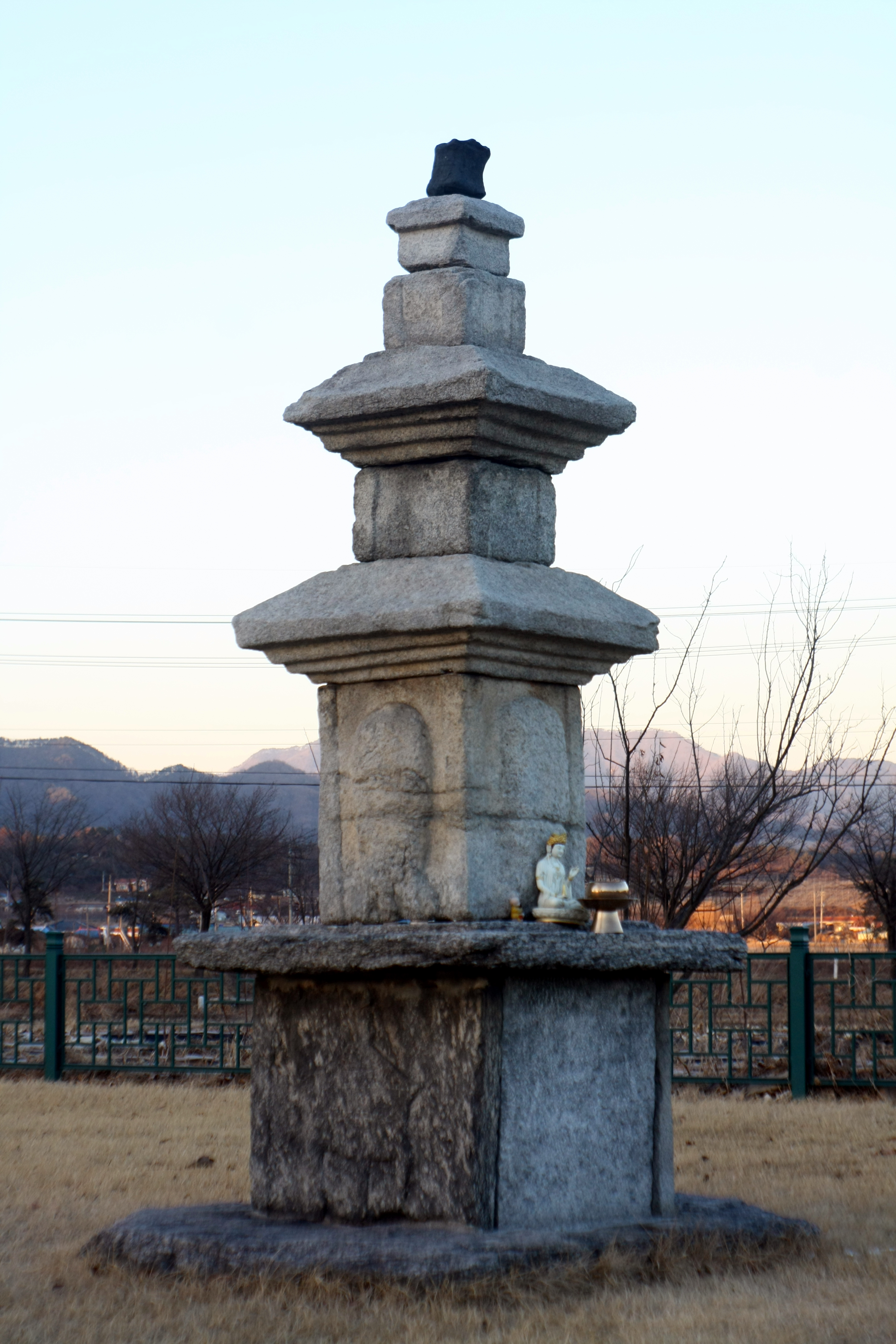 Three-story Stone Pagoda at Wonpyeong-ri in Chungju, Korea